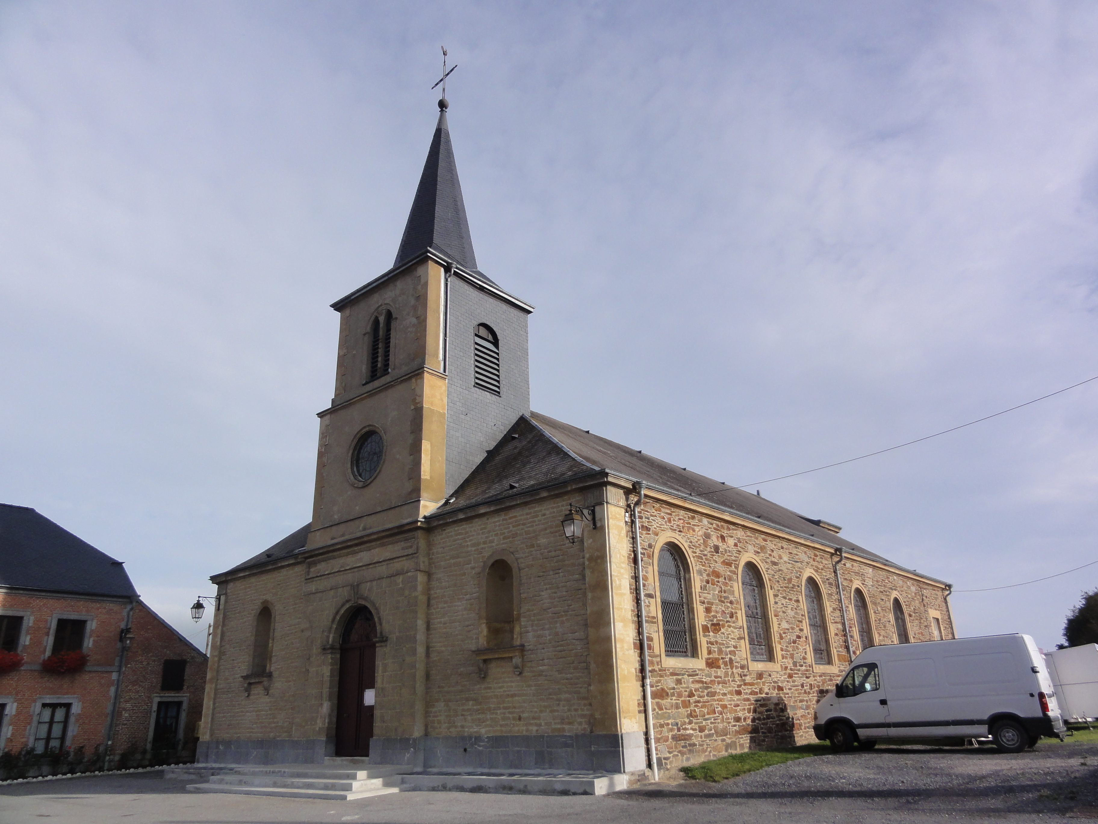 Taillette (Ardennes) église